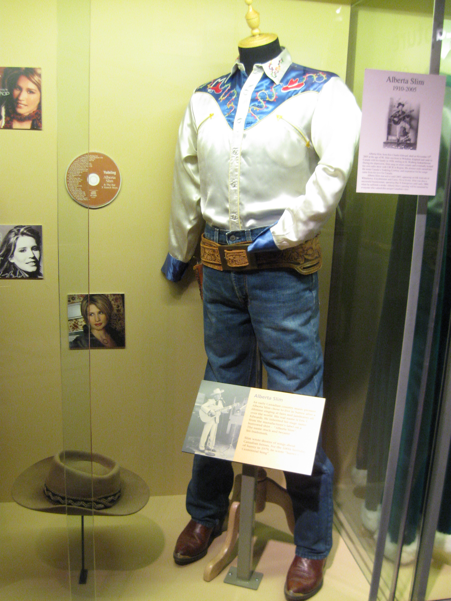 Alberta Slim (born Eric Charles Edward) died on November 25, 2005 at 96 years old. He was born in Wiltshire, England, and came to Canada in 1920 with his family where he settled in St. Waltberg, Saskatchewan. During the Depression, he sang on street corners and later hosted his own radio show with CKCK radio in Regina, Saskatchewan. His unique singing style earned him the name “Canada’s Yodeling Cowboy”, and the inspiration for his songs came from his love for Canada. Alberta Slim was active until 2003 appearing at numerous folk festivals in Whitehorse, Llyodminster, and Canso, Nova Scotia. He also operated the Bar-X Enterprises until early 2004 when he suffered a stroke. Slim’s passing was mourned by admirers who valued his unique Canadian voice. Source: An information panel in The Surrey Museum of Surrey, BC, Canada, which displayed this beautiful cowboy costume which belonged to Alberta Slim. This costume is part of the permanent collection of the Surrey Museum in BC, Canada.